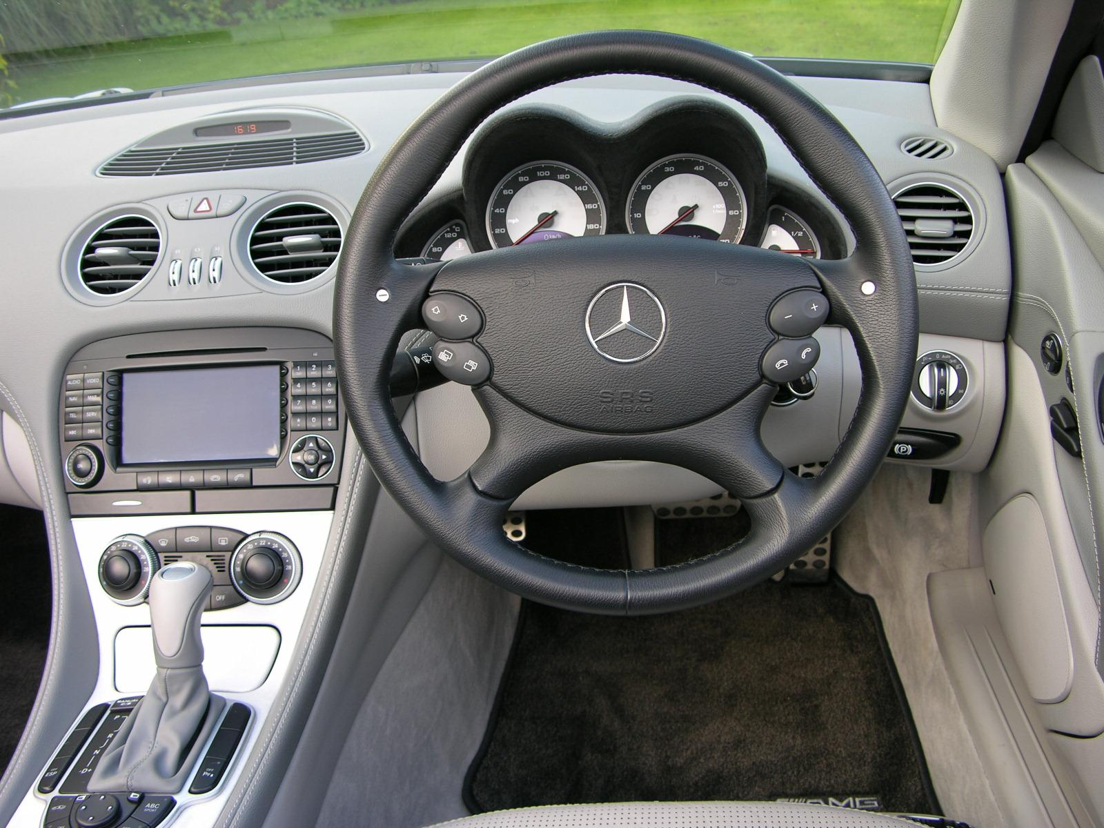 This car is for sale. Please contact us at or visit for more information.